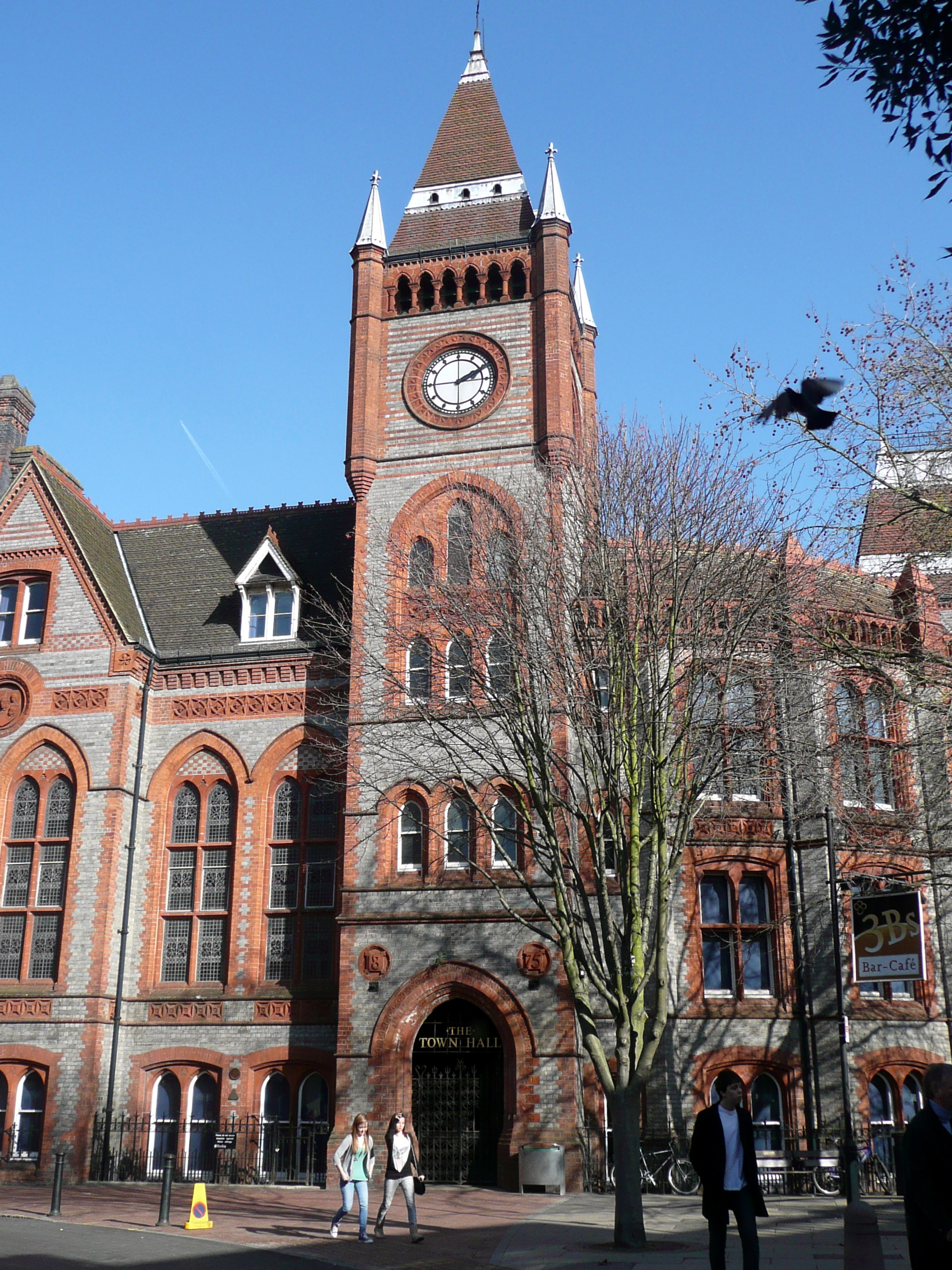 Reading Town Hall, Friar Street, Reading. Designed by Waterhouse and built 1872-6. The Tower was re-instated in 1988-89 after the original was destroyed by bombing in 1943. It was extended in 1879-82 by Thomas Lainson with the Art Gallery added in 1896-7 by J J Cooper and W R Howell.